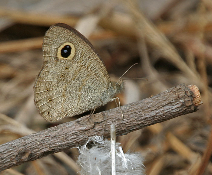 Common Five-ring Ypthima baldus in Kolkata, West Bengal, India.